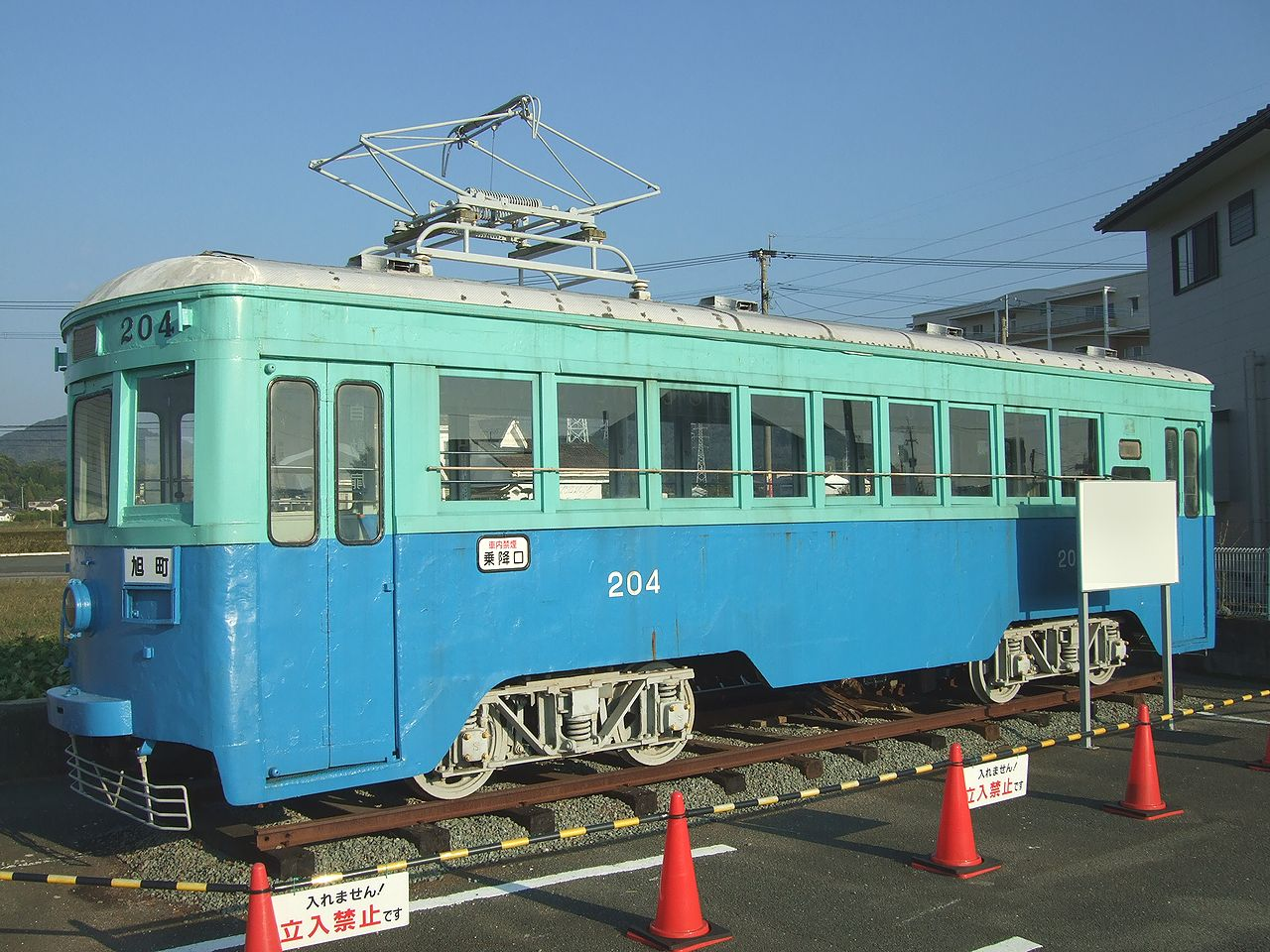 Company:Nishi Nippon Railroad Type:Tram Type200 Car number:204 Location:"Dairiki Jaya", Omuta, Fukuoka, Japan.